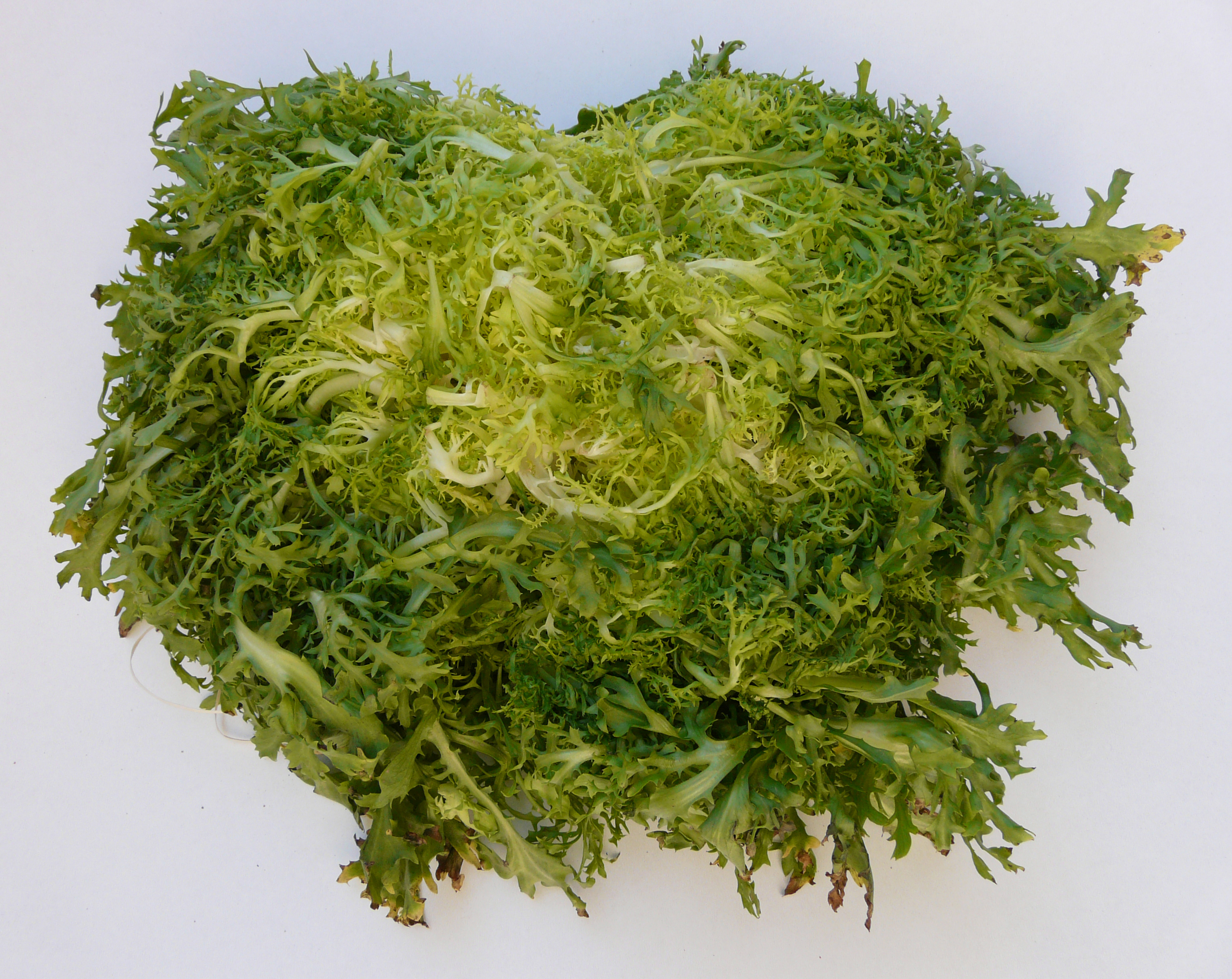 Piràmide d'aliments de l'Empordà